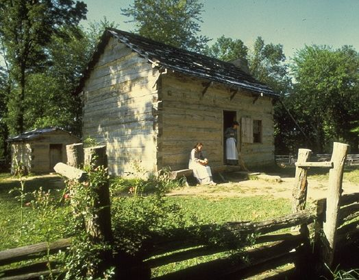 Lincoln Boyhood National Memorial, Lincoln Living Historical Farm -- containing new buildings to represent and reinact a farm of the time of Abraham Lincoln's youth.